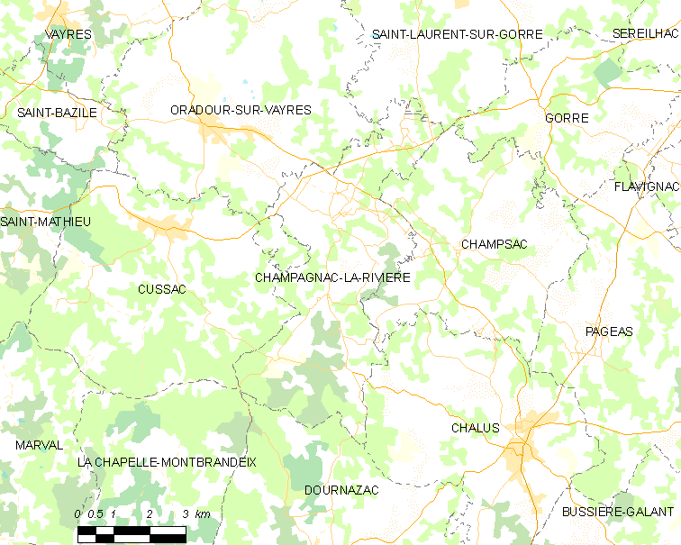 Map of French municipality Champagnac-la-Rivière